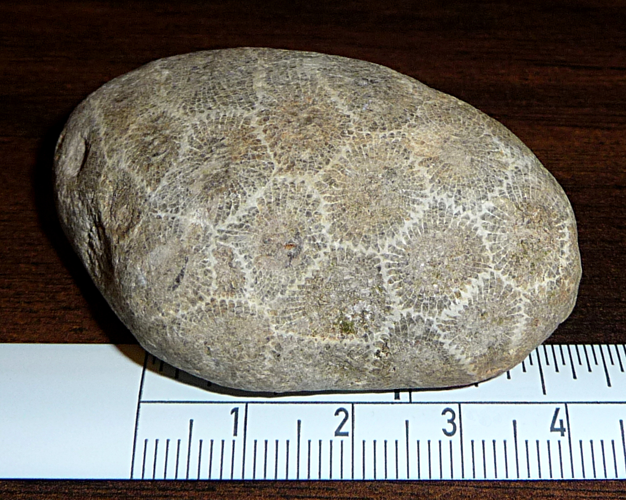 Unpolished, fossilized Hexagonaria percarinata, commonly known as Petoskey stone. Sample found in the Sturgeon River, Cheboygan County. Shown with cm scale.